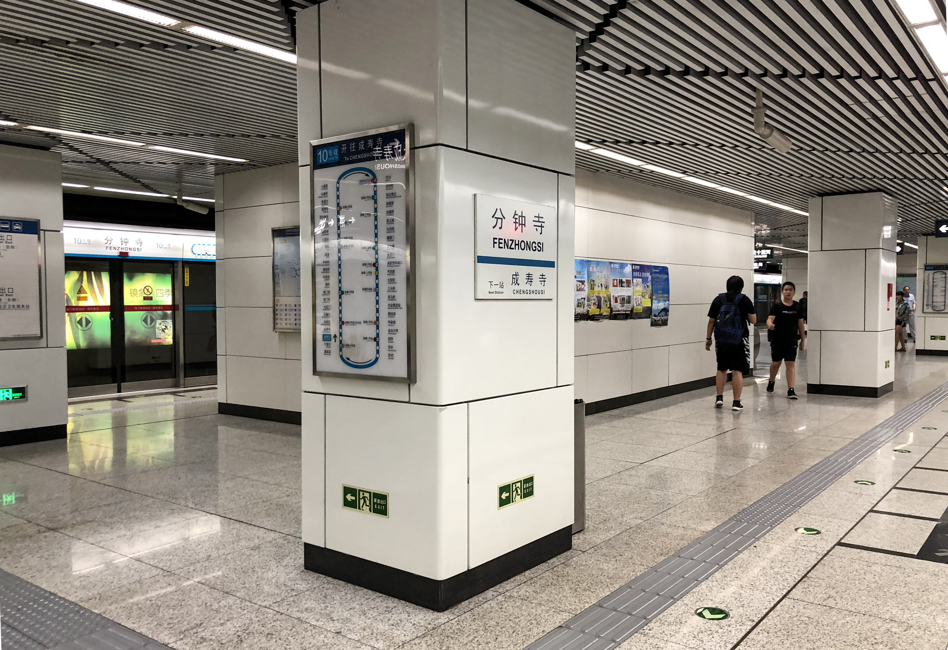 Just a glimpse.